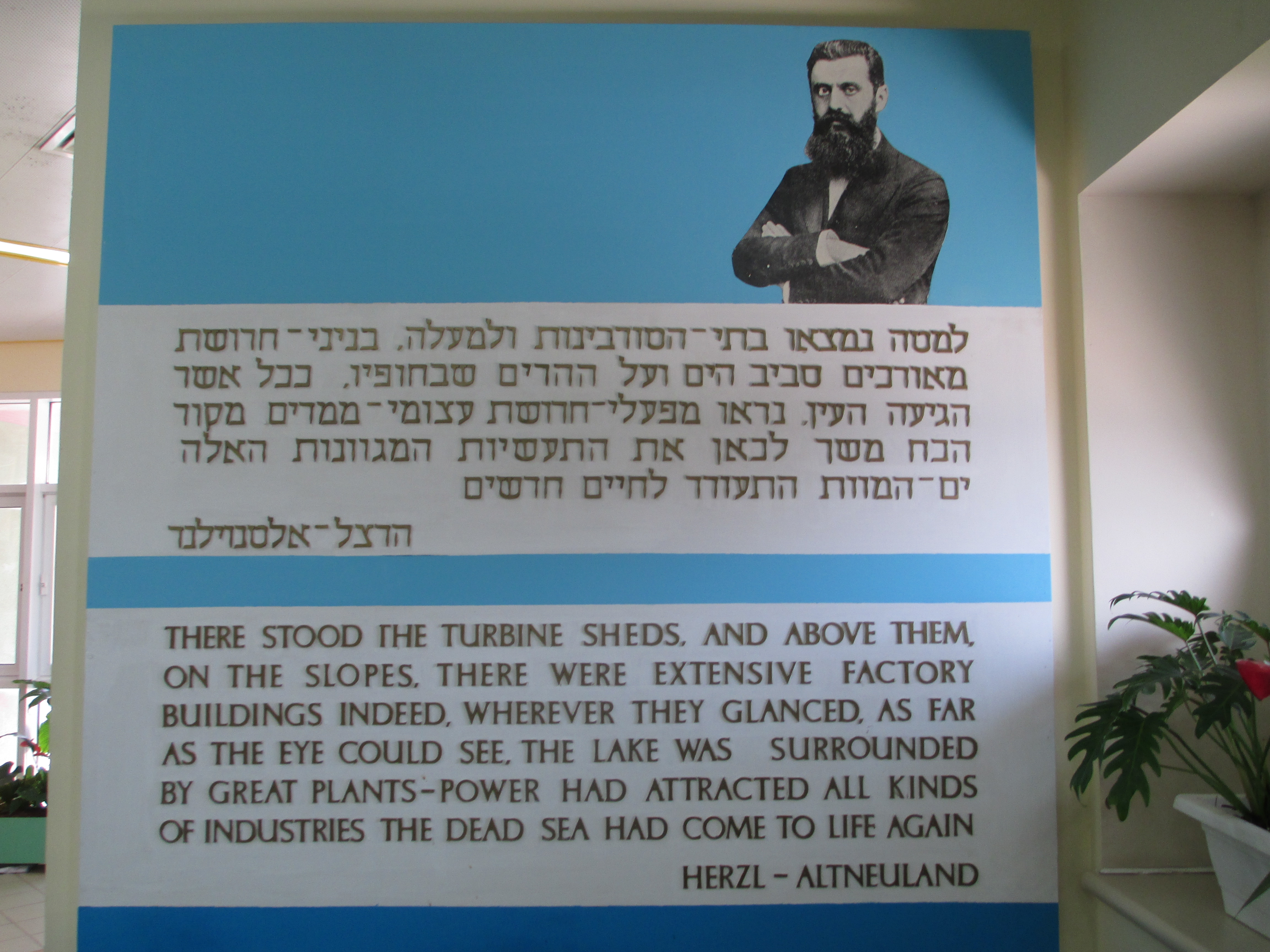 Herzl vision on the Dead Sea